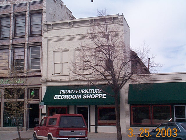 Provo Cooperative Mercantile Institution located at 466 West Center Street, Provo, Utah. This building is on the National Registry of Historic Places and is a local city landmark.